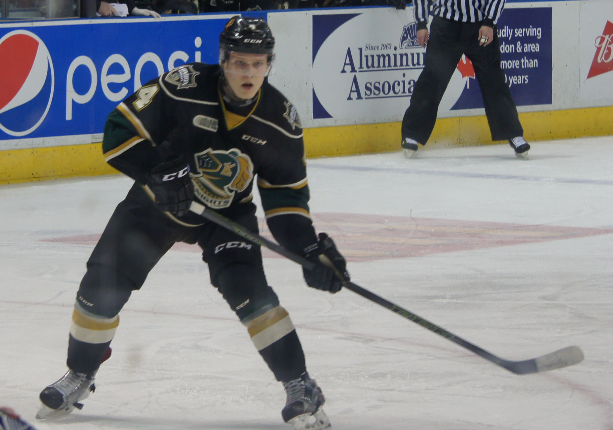 Olli Juolevi playing for the London Knights against the Kitchener Rangers in London on April 8, 2016